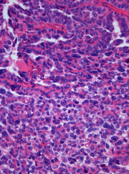 Photomicrograph of hematoxylin-eosin stained section of a choroid plexus carcinoma (grade III WHO) at 400x magnification. Image taken using an Olympus Microscope and Analysis-Imaging Software on 10-24-2006 by Martin Hasselblatt MD